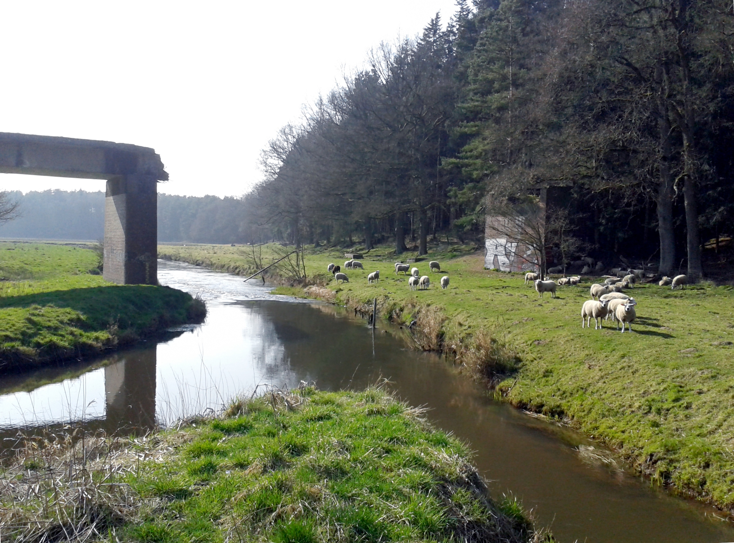 Bomlitz river flowing into the Boehme under the remnants of a railway bridge, Bomlitz, Lower Saxony, Germany